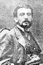 Photographic portrait of Cletto Arrighi.